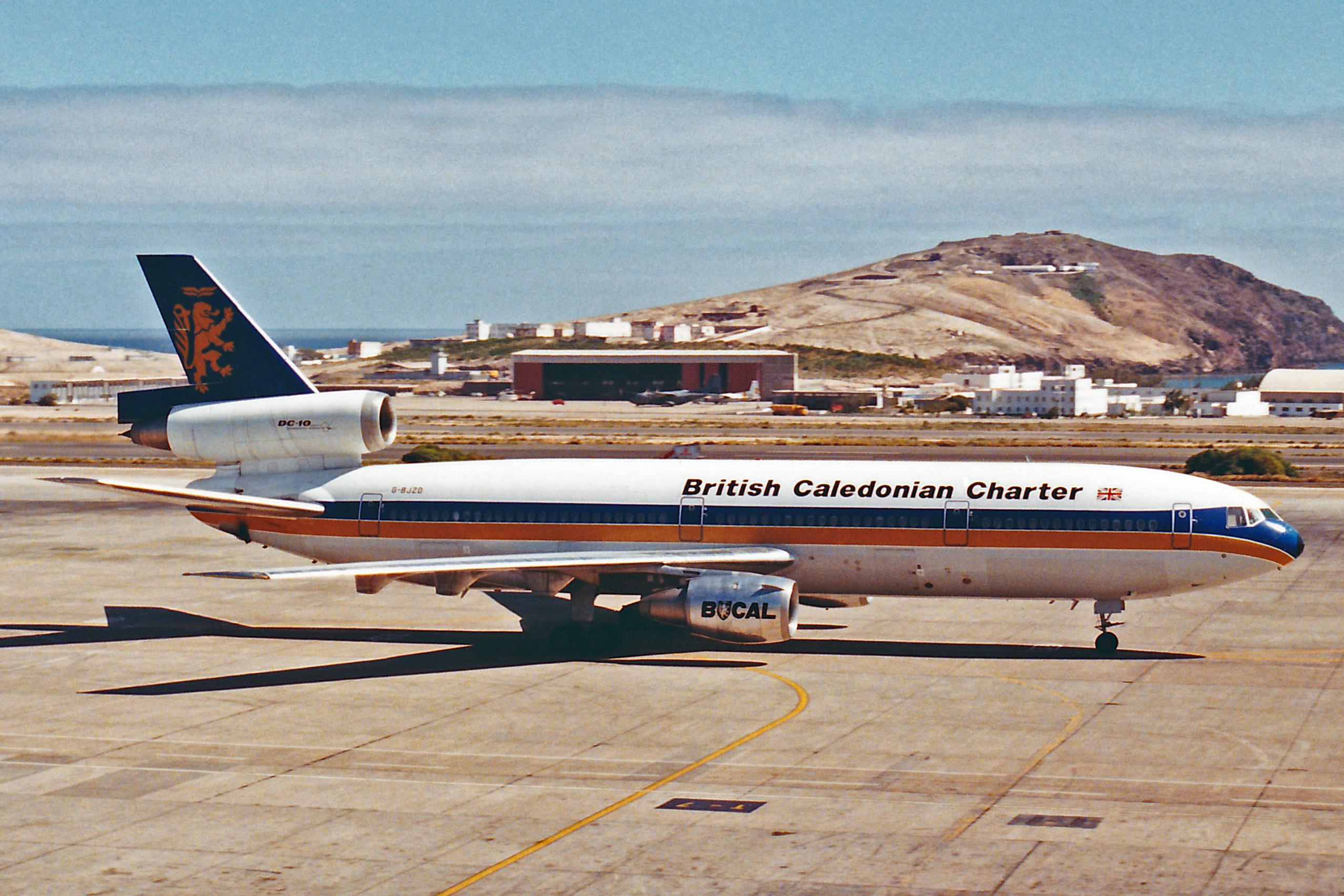 Replacing an earlier photo with a better version. Delivered new to Laker Airways in Apr-79 as G-GFAL, this aircraft served with them until they ceased operations in Feb-82. Thomson Holidays and the Rank Leisure Group had big contracts with Laker for the upcoming 1982 summer season and approached British Caledonian to see if they would operate the flights. B.Cal formed 'British Caledonian Charter' Ltd with B.Cal holding 51% and The Rank Leisure Group holding 49% of the new company. The leases for two DC-10-10's were taken over by B.Cal in mid Feb-82 and transferred to B.Cal Charter on 01-Mar-82. This aircraft became G-BJZD (the other being G-BJZE). In Oct-85 B.Cal Charter was renamed Cal Air International and the aircraft were re-painted in a new red livery. In Dec-88 British Caledonian was 'absorbed' into British Airways. However BA already had a charter division, British Airtours (which became the 'new' Caledonian Airways) and didn't need Cal Air. So BA's 51% interest in the company was sold to Rank Leisure for a nominal sum and the airline was renamed Novair International. Unfortunately, Rank Leisure really hadn't a clue about running an airline, eventually deciding it was uneconomic, and it was closed down at the end of Mar-90. The DC-10's were stored at Prestwick (PIK), Scotland, they were eventually ferried to Waco (CNW), TX, USA and returned to ILFC. This aircraft became N581LF. In Feb-94 the aircraft was converted to freighter config and leased to Federal Express as N10060. After 35 years (as of Feb-14) it's still in US domestic service with FedEx, although probably not for much longer.